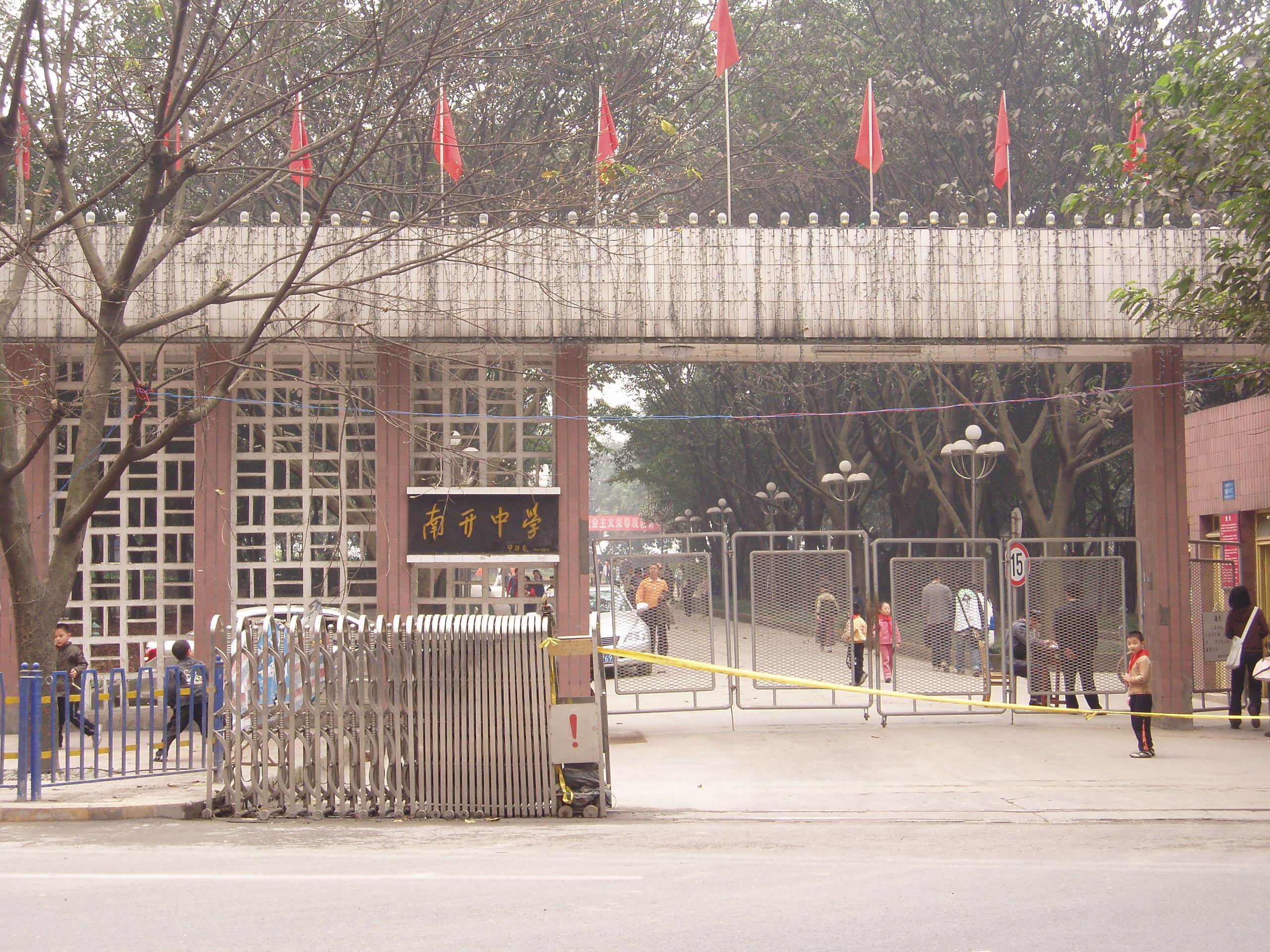 Chongqing Nankai Secondary School in Chongqing, China